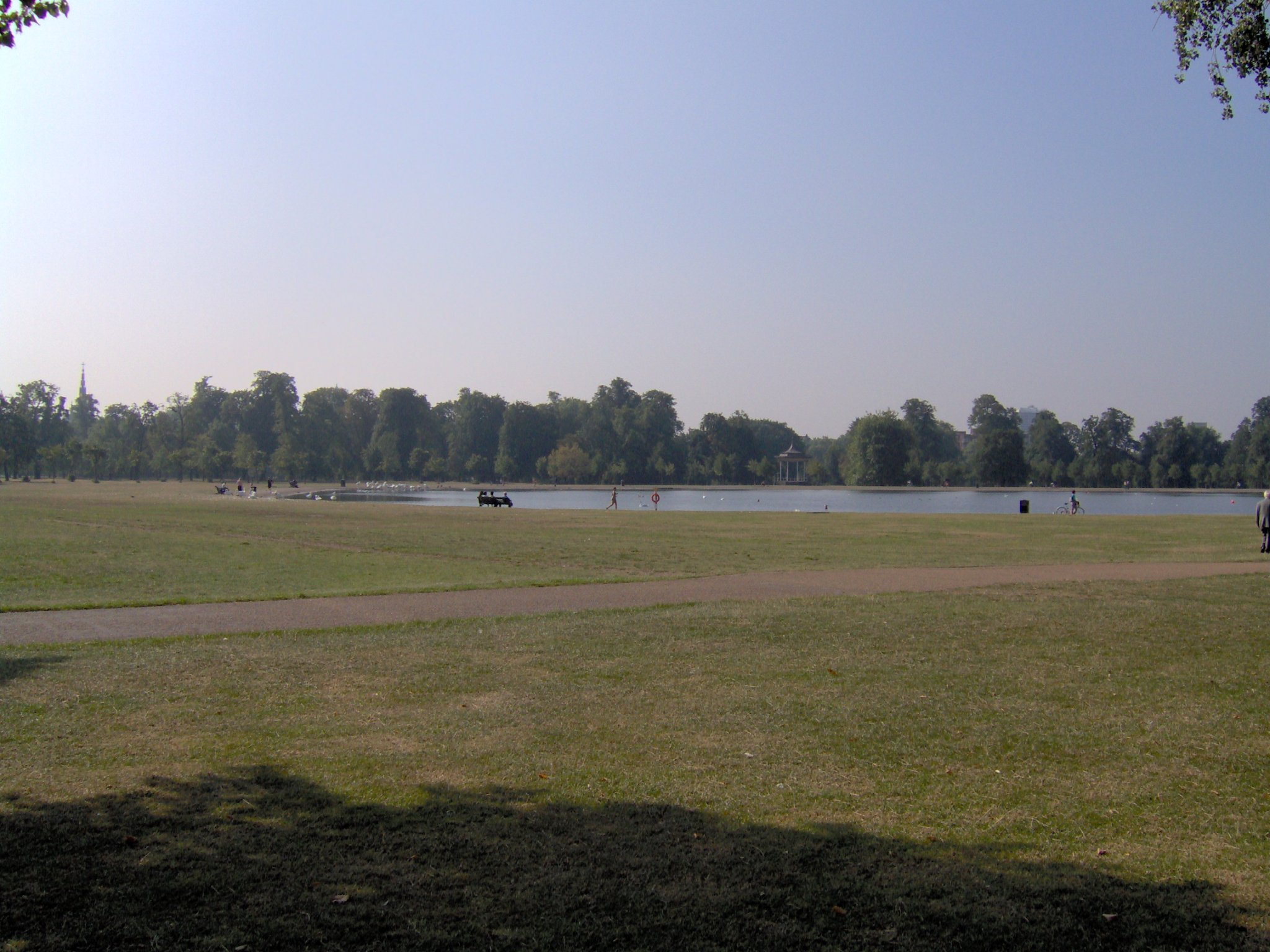 The Round Pond, Kensington Gardens, Westminster, London